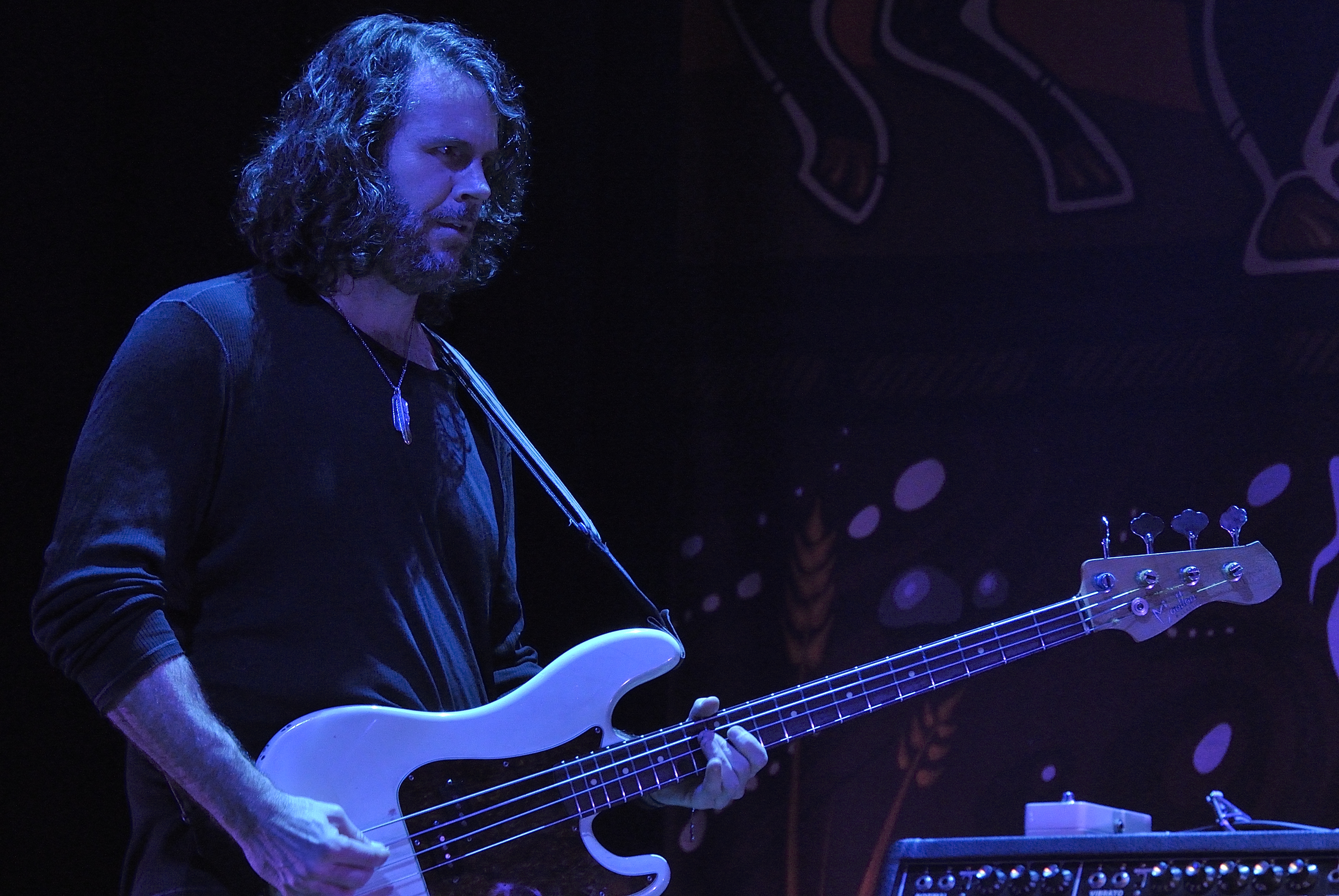 Tim Lefebvre performing with Tedeschi Trucks Band in 2014 at Hitomi Memorial Hall, Tokyo, Japan.